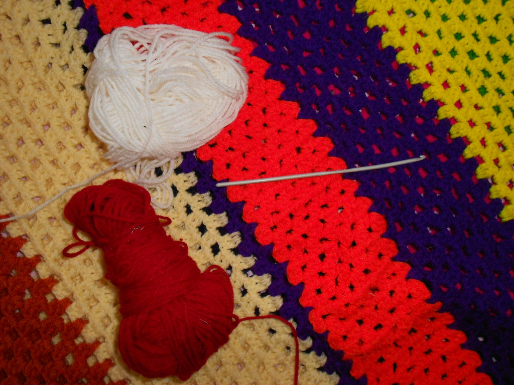 This media file is uploaded with Malayalam loves Wikimedia event - 2. Crochet patterns with thread and needle